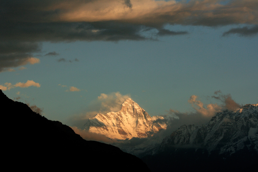 Nanda Devi from Joshimath, Uttarakhand